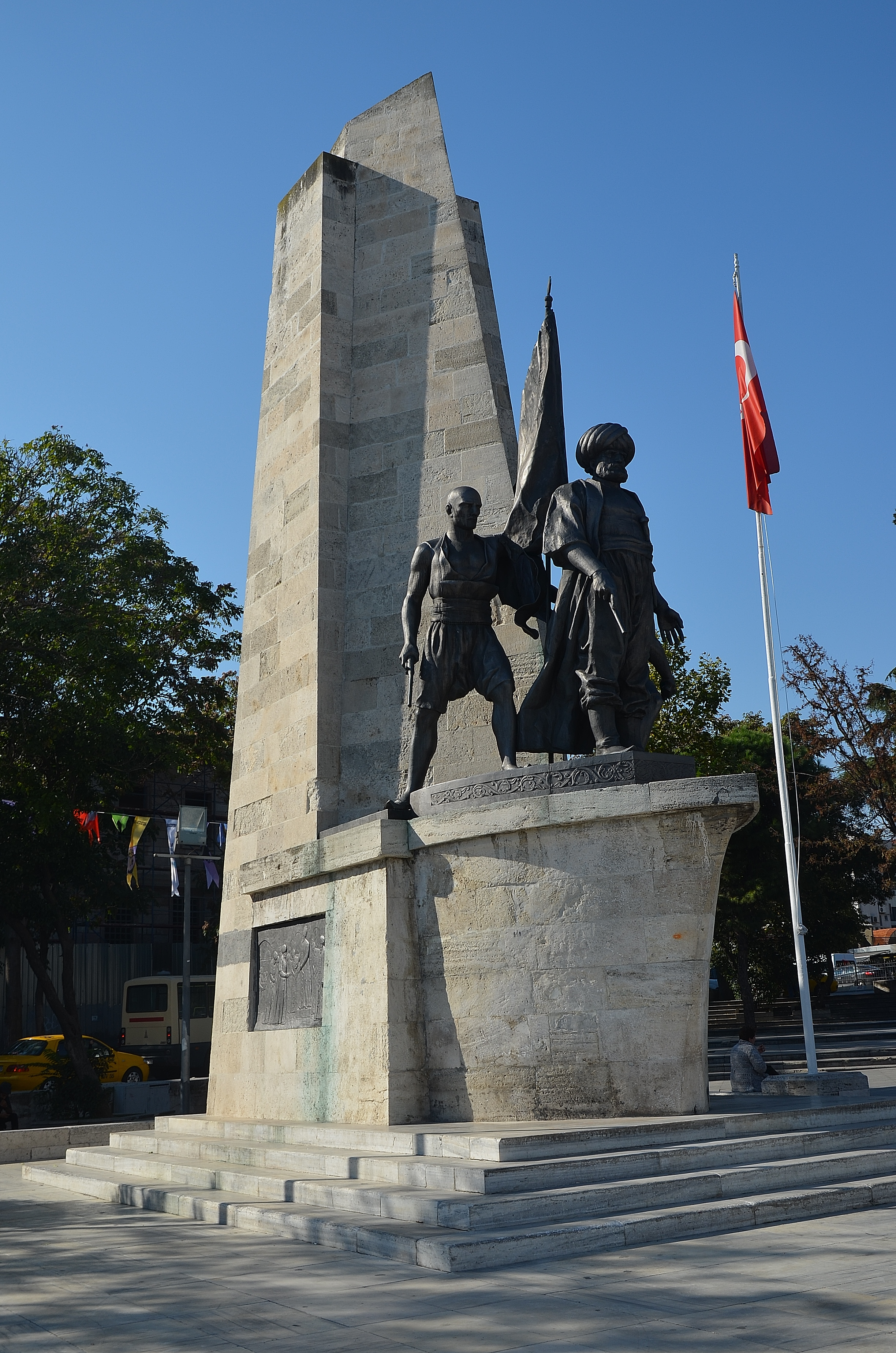 Statue of Barbaros Hayreddin Pasha, Beşiktaş